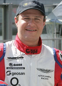 Tomas Enge